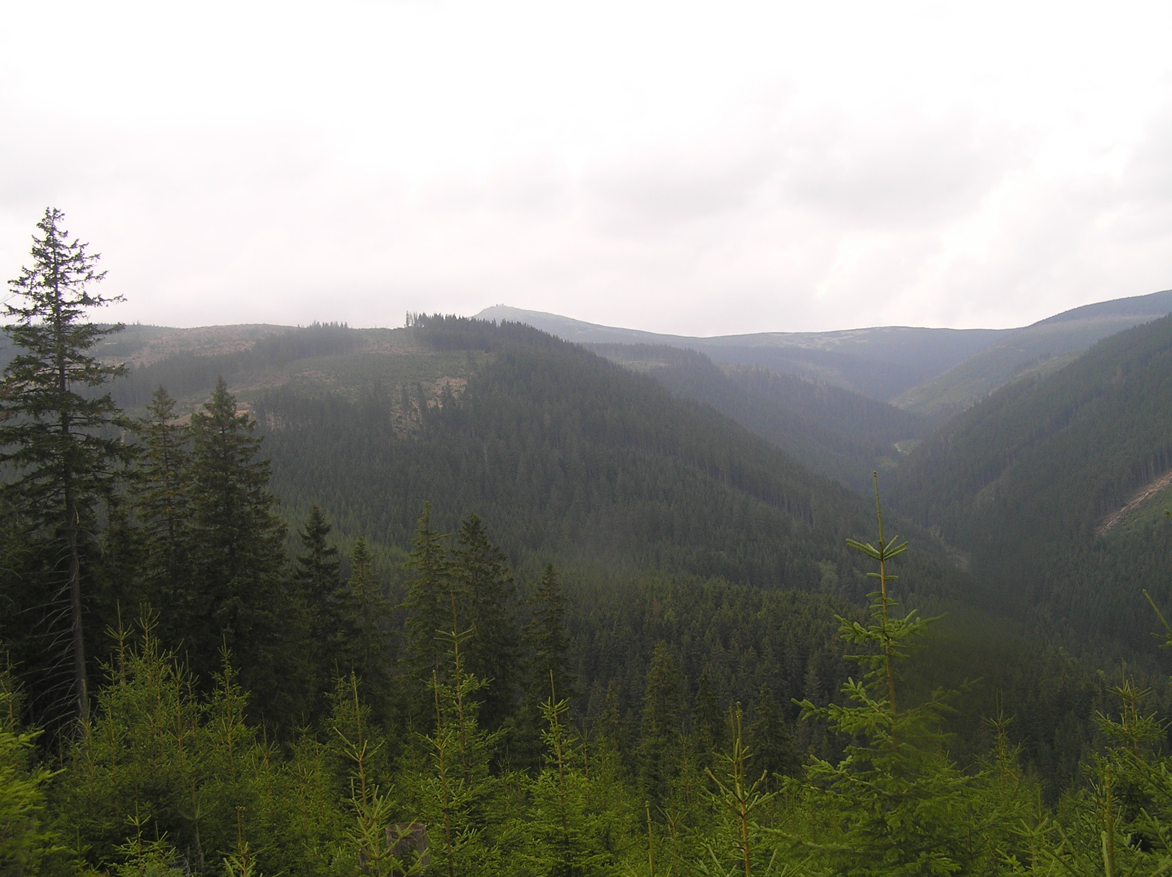 Lví důl, Krkonoše Mountains, Czech Republic